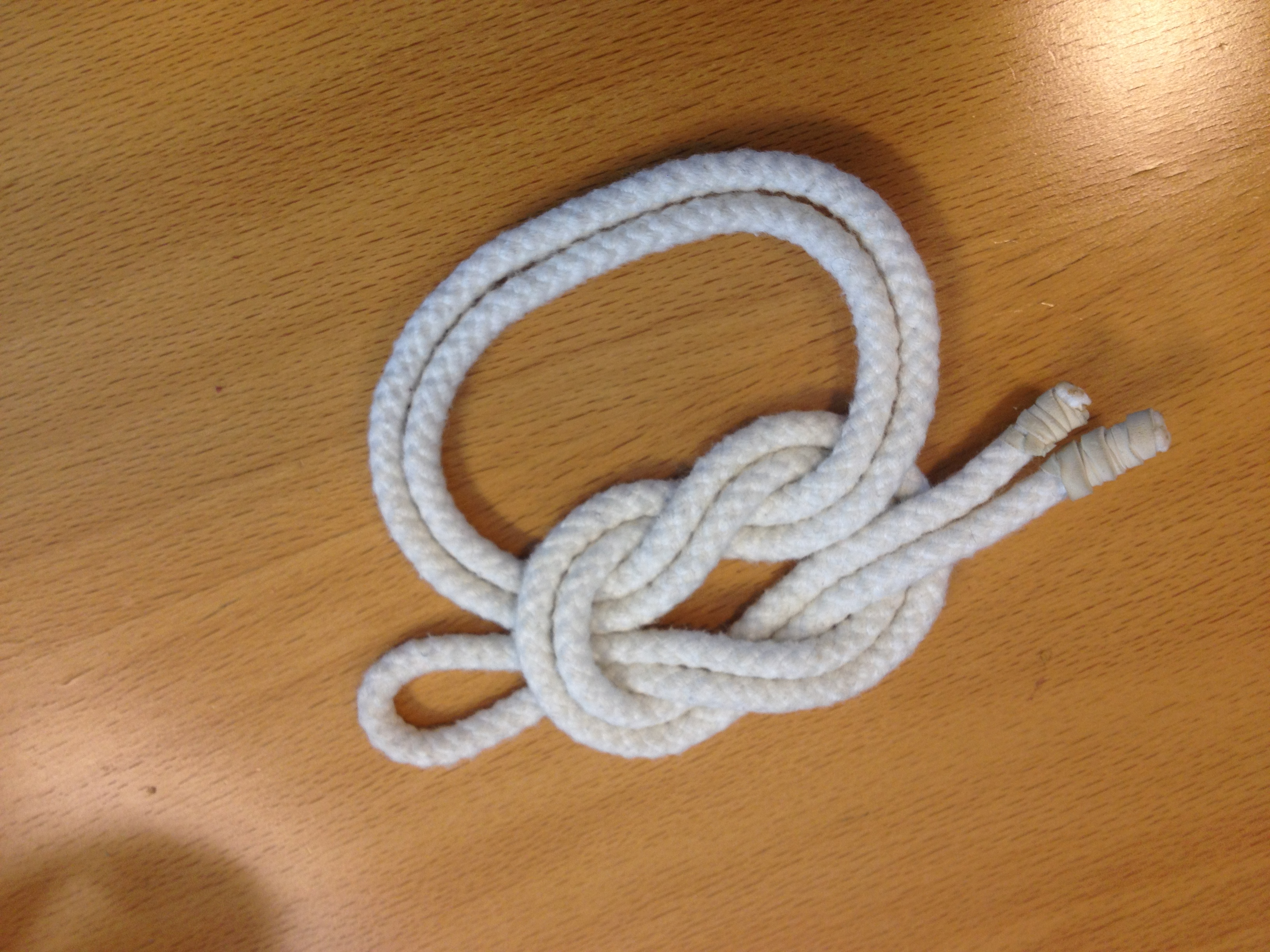 Reef knot; ends entering the knot on the same side and leaving same side as it entered.